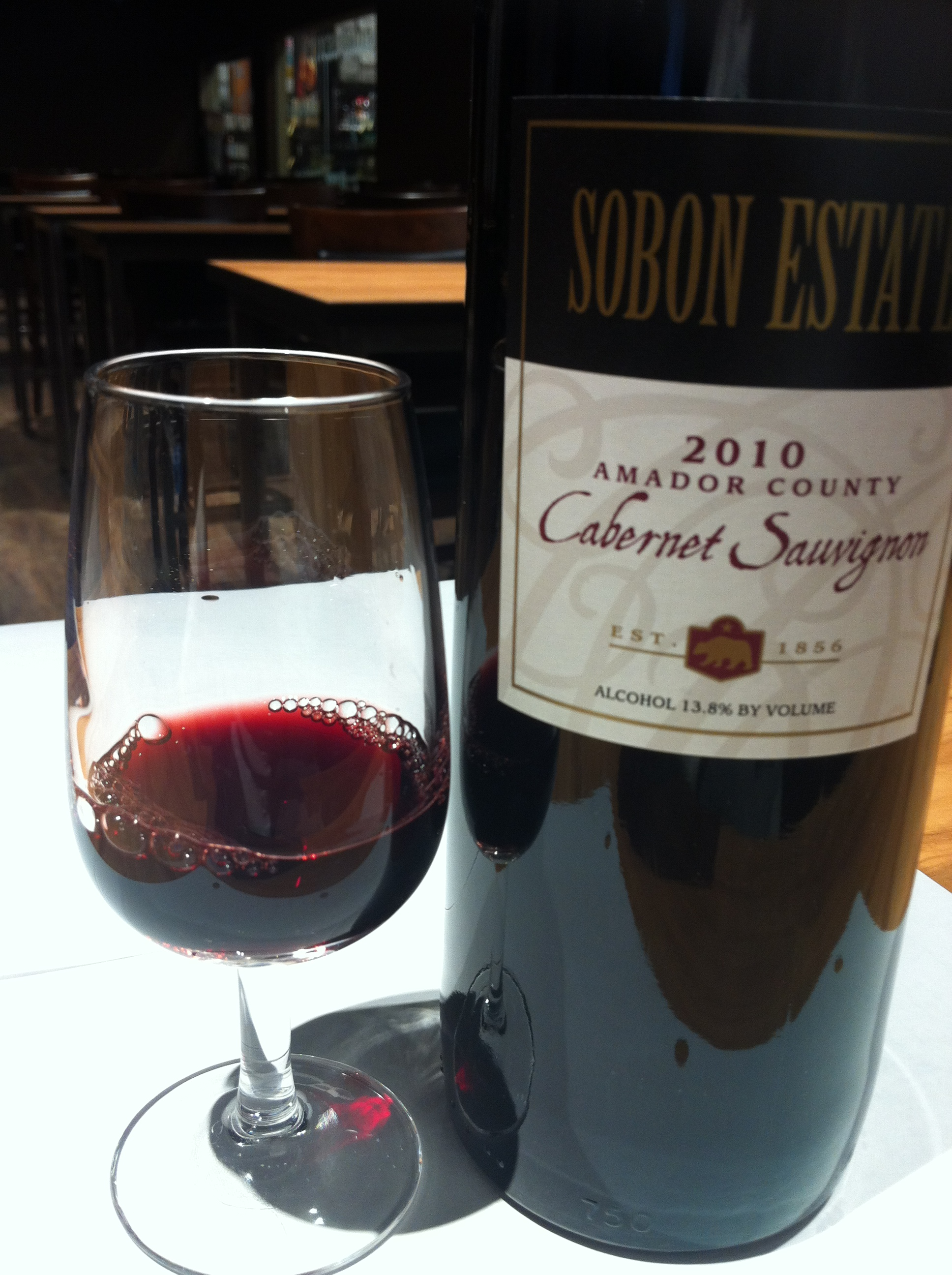 California Cabernet Sauvignon from Amador County